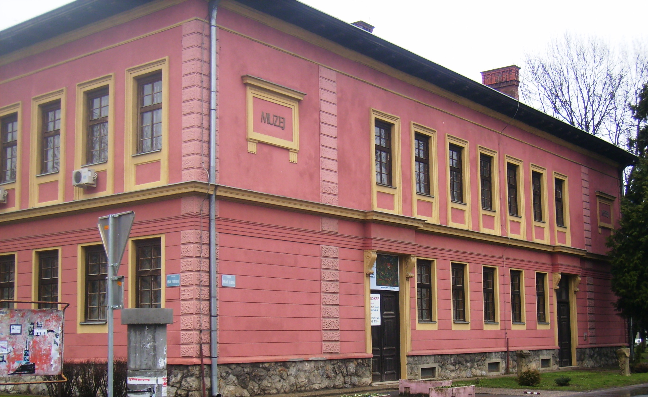 Prijedor Museum - Muzej Prijedor